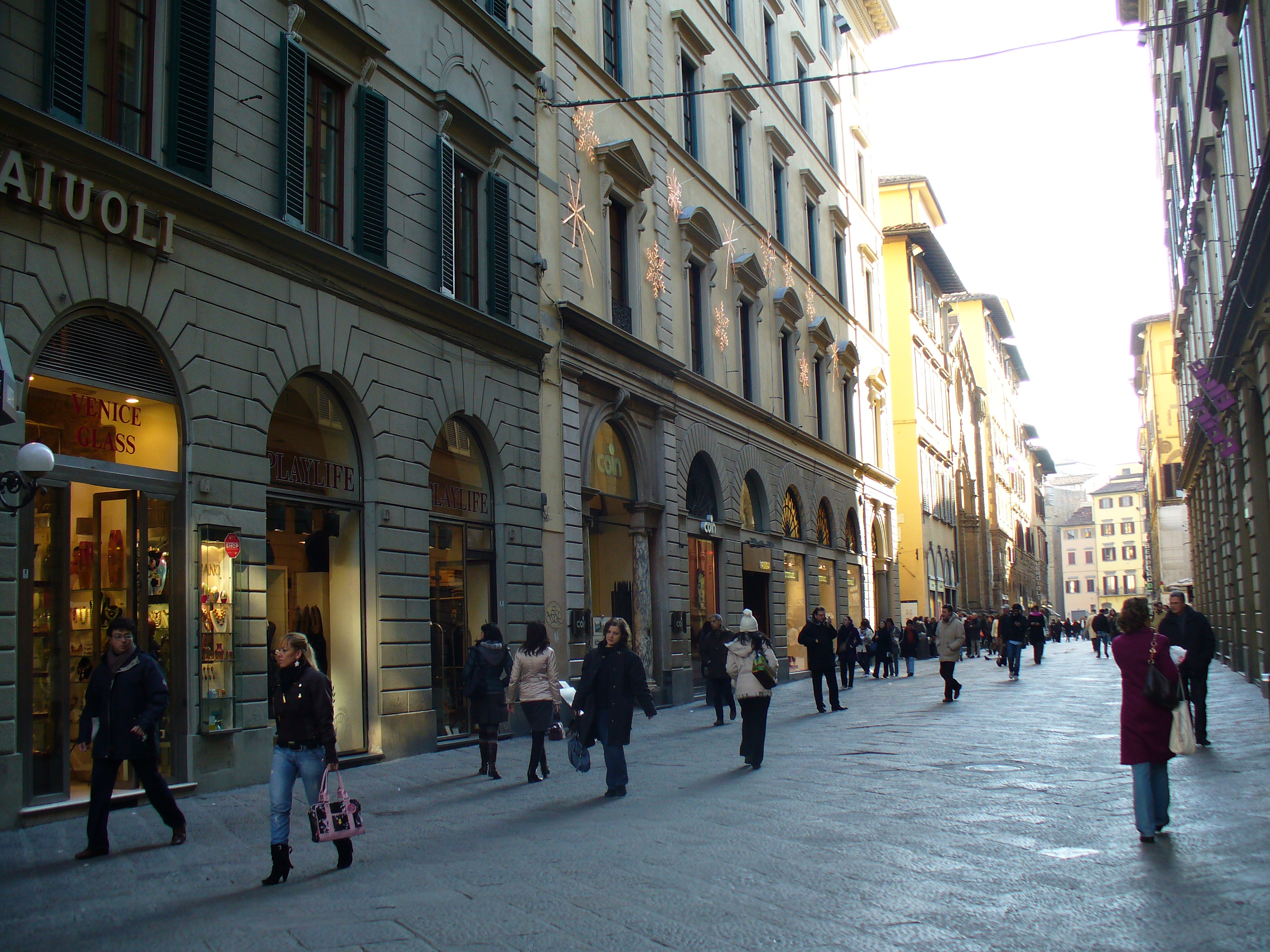 Via dei Calzaiuoli